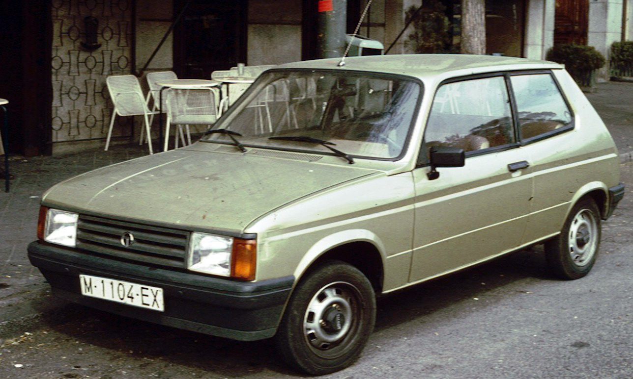 Talbot Samba from and in Madrid